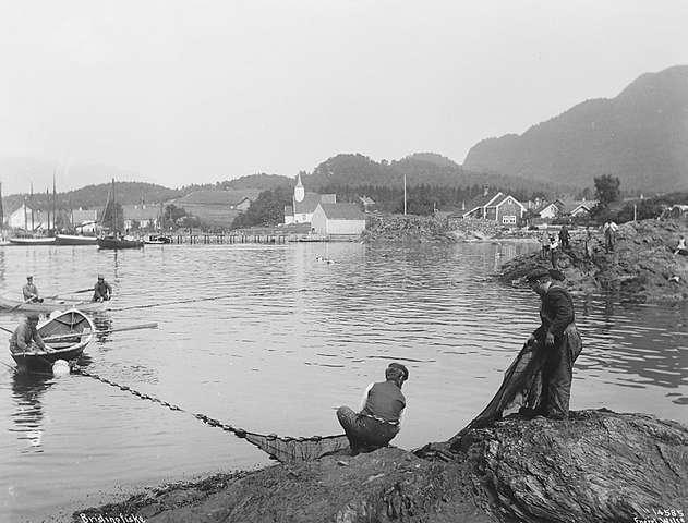 Sprat-fishing.